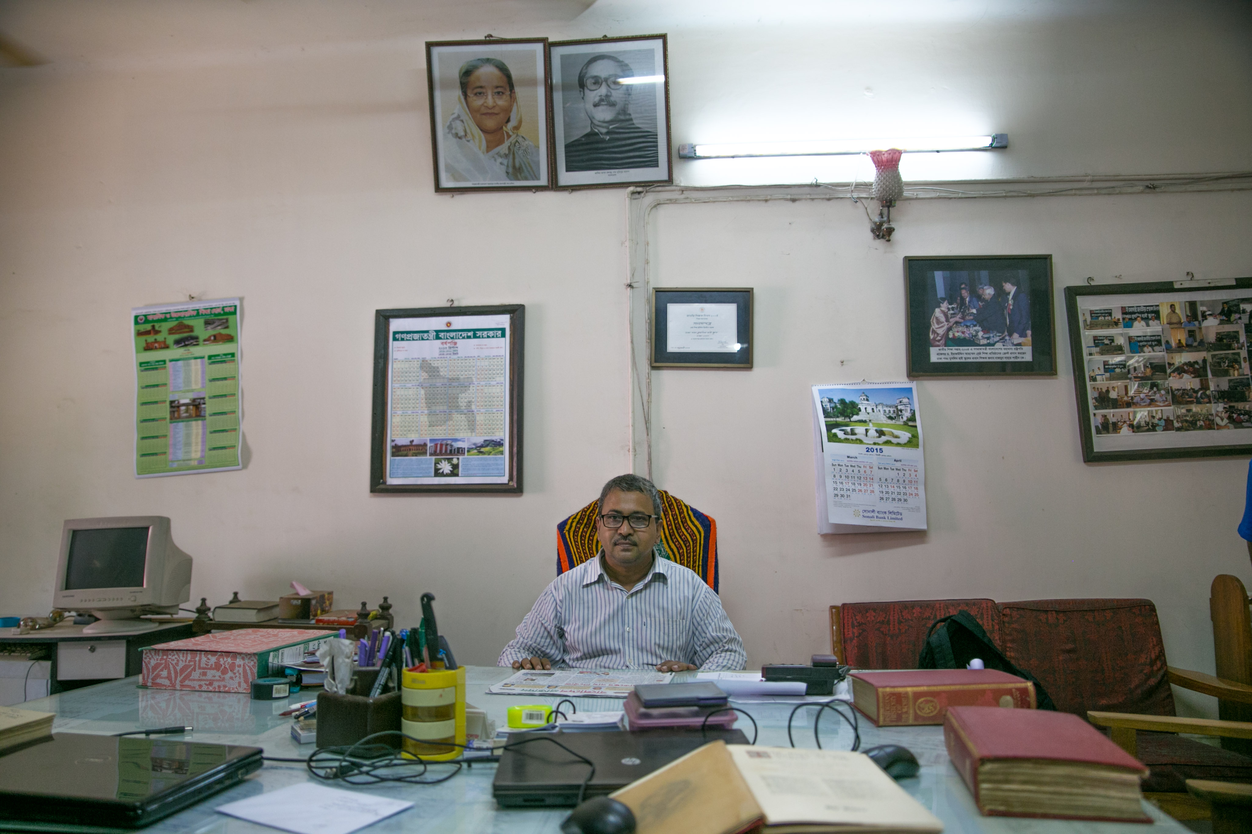 Muslim Govt. High School